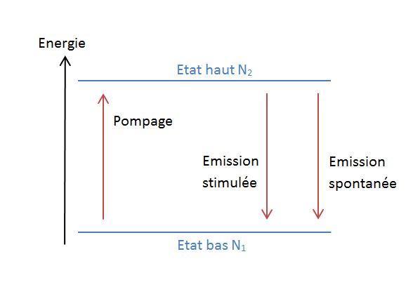 This is a description of the Rate equation for a 2 level system